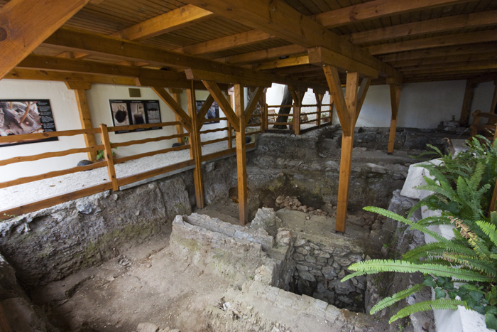 Open-air archeological exhibit at the Gibraltar Museum.